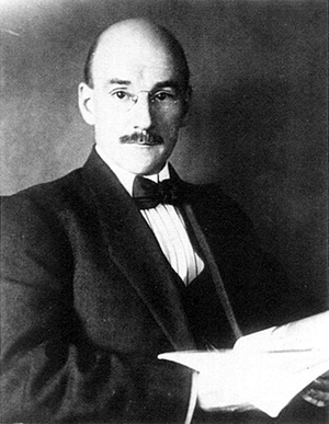 Henry H. Goddard, ca. 1910s.